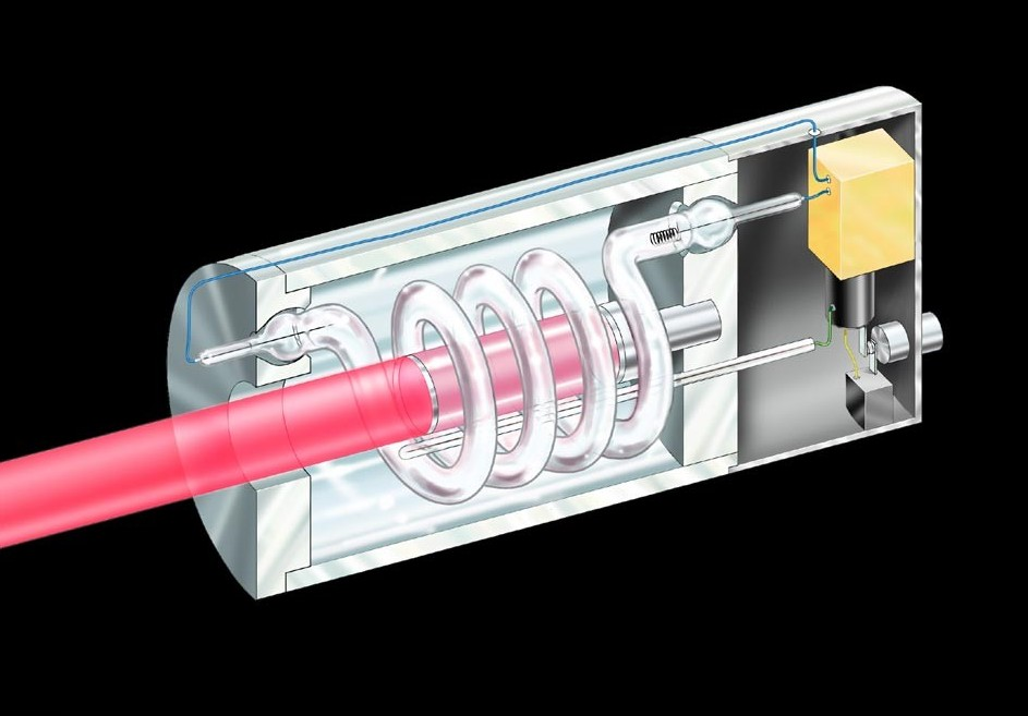 Diagram of a ruby laser from LLNL document "Laser Programs, the first 25 years".[1]